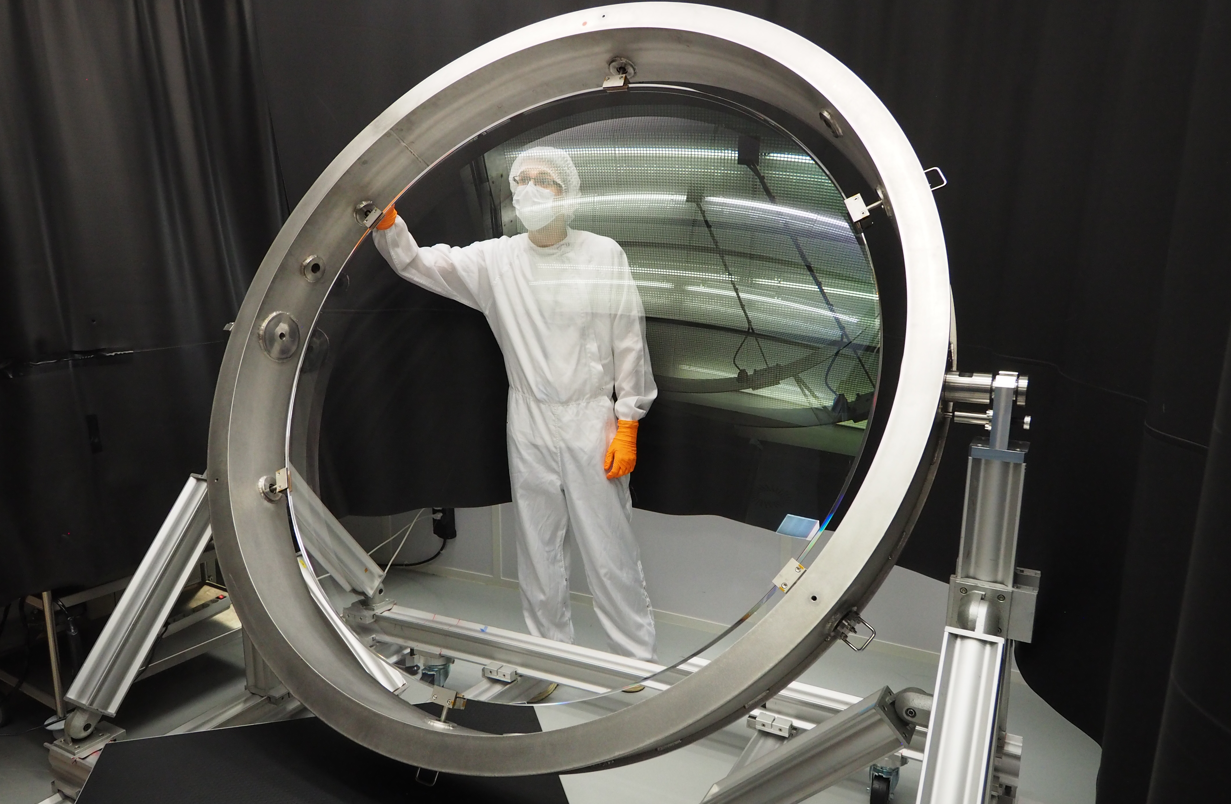 L1 Lens of the camera polished and coated with a broadband antireflective coating by Safran-Reosc.